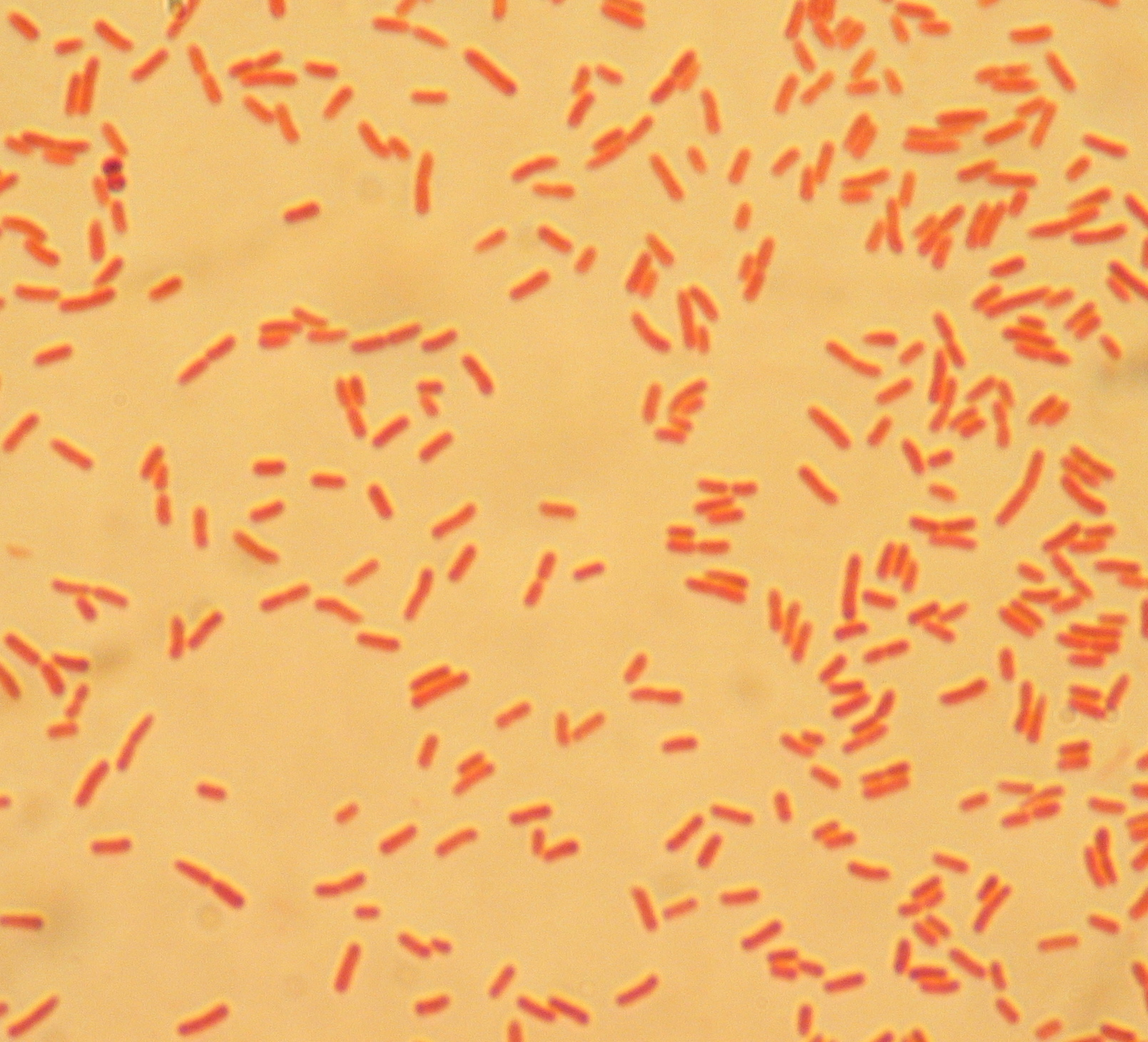 Escherichia coli: Gram negative rod off a culture plate from a patient with Urinary Tract Infection.